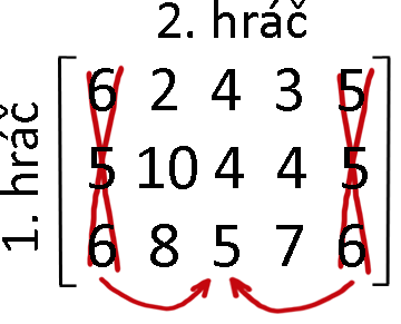 domination